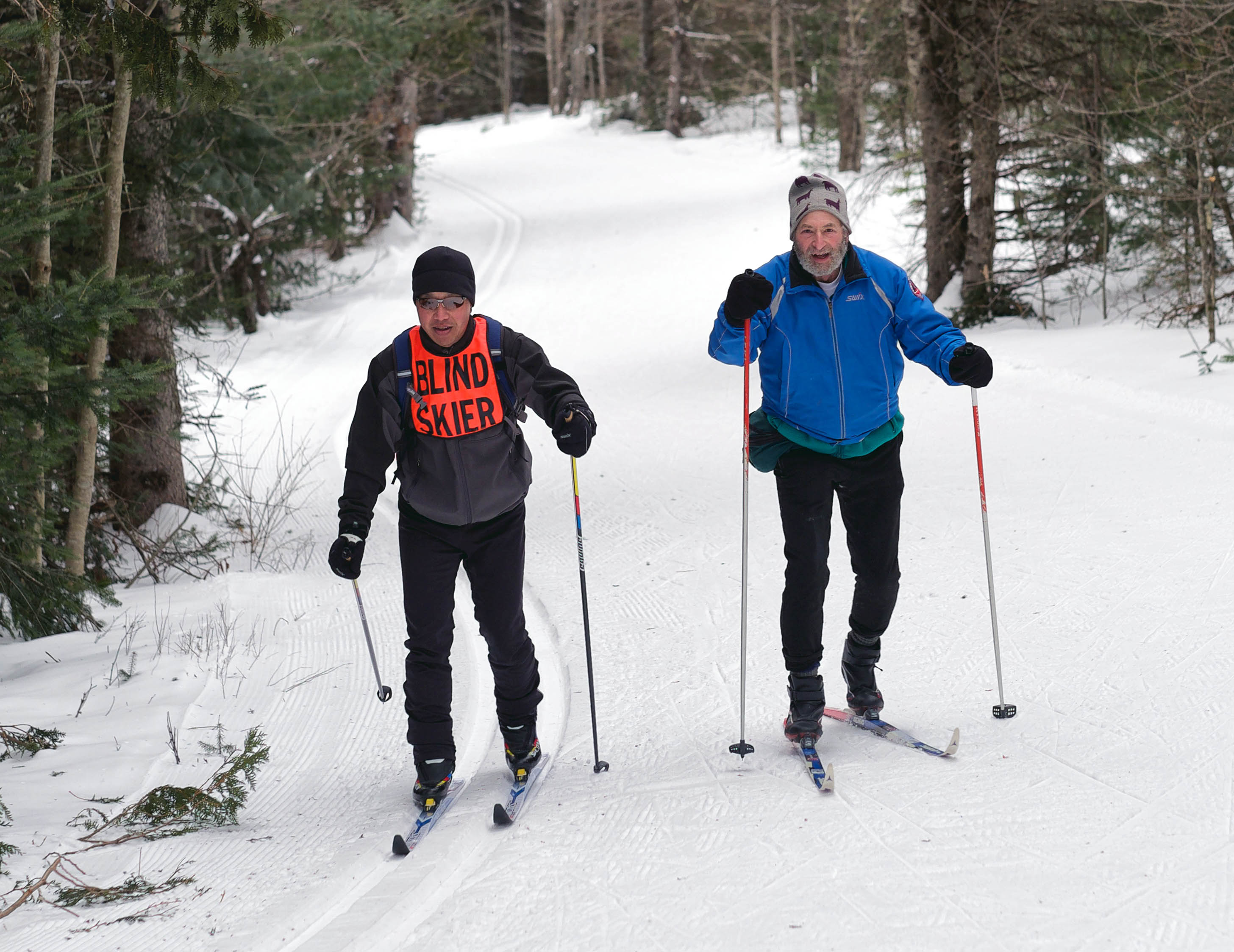 A blind skier and guide at a January, 2015 New England Regional Ski for Light event at the Craftsbury Outdoor Center in Craftsbury, Vermont.